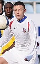 Dmytro Korkishko